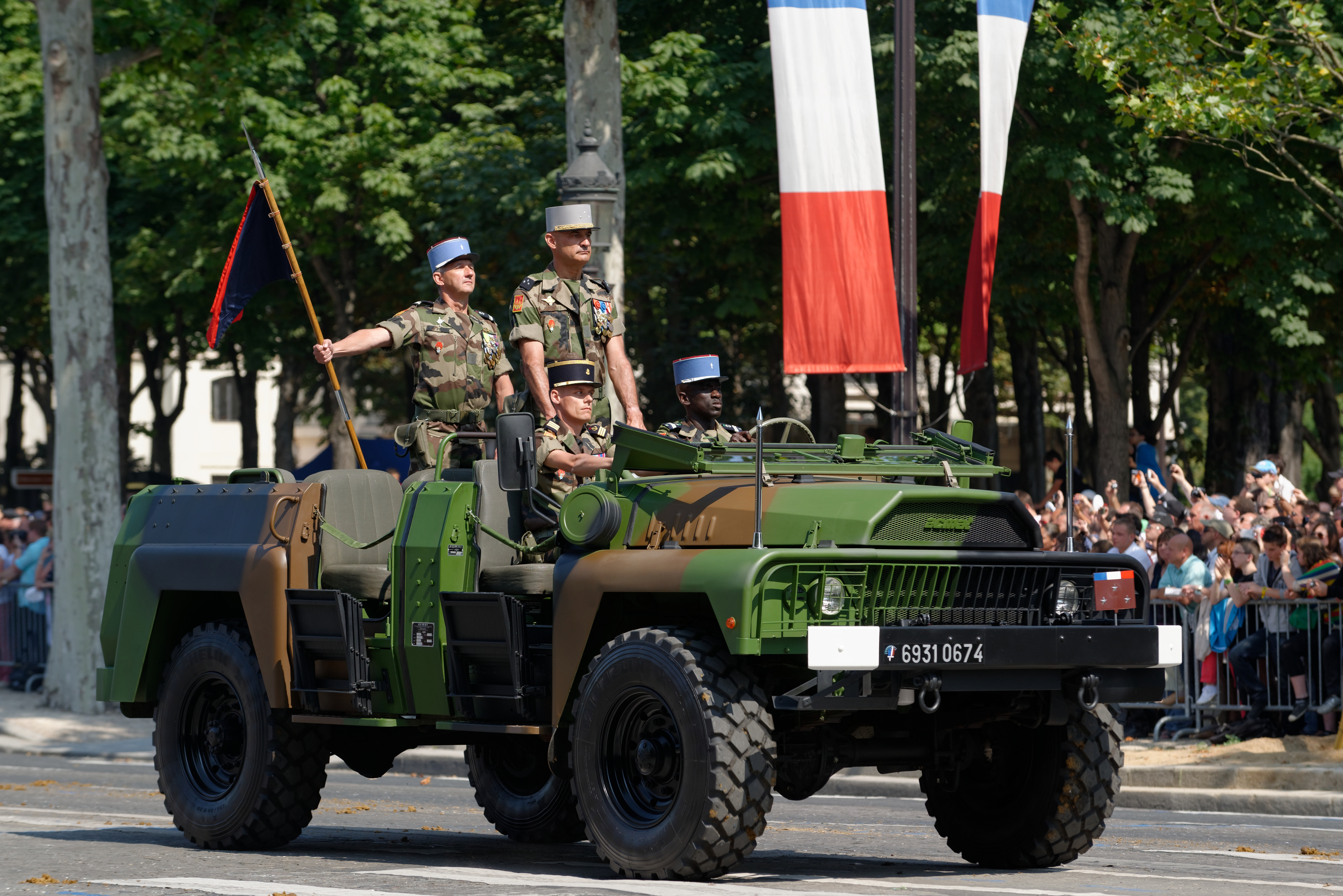 Gen. Philippe Pontiès, commanding the Force Headquarters no.3, takes part in the Bastille Day 2013 military parade on the Champs-Élysées in Paris.